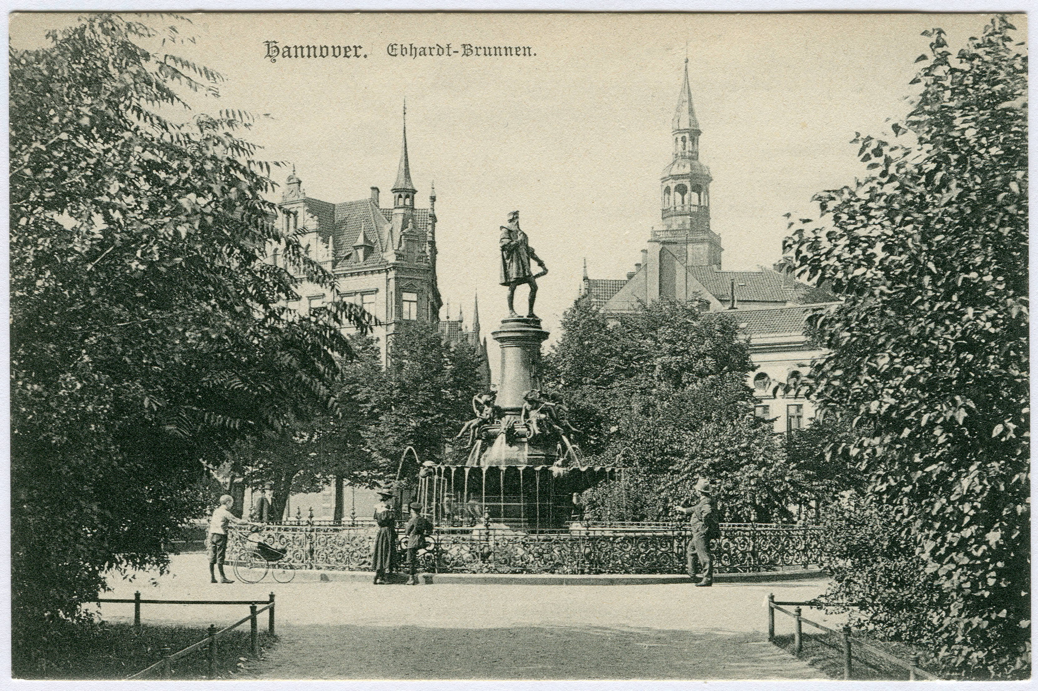 Hanover Gutenberg-Monument in front of the later built New City Hall.